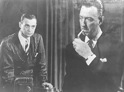 Luis y Eduardo Sandrini- actores argentinos